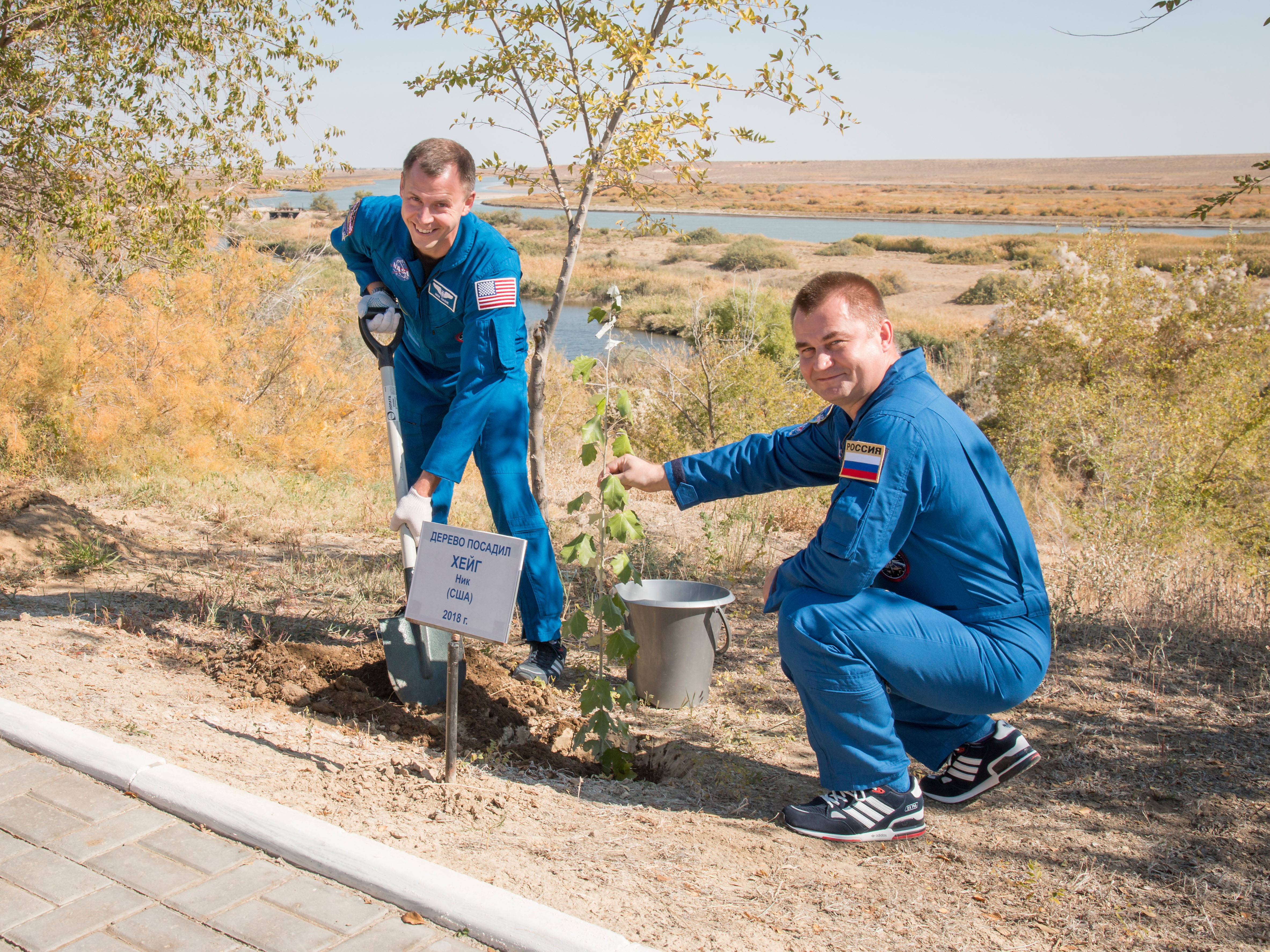 Expedition 57 crew member Nick Hague of NASA, left, plants a tree in his name as part of the traditional pre-launch activities for a first-time flier with help from crewmate Alexey Ovchinin of Roscosmos, Wednesday, Oct. 3, 2018 at the Cosmonaut Hotel in Baikonur, Kazakhstan. Hague and Ovchinin are scheduled to launch on Oct. 11 onboard the Soyuz MS-10 spacecraft from the Baikonur Cosmodrome in Kazakhstan for a six-month mission on the International Space Station.